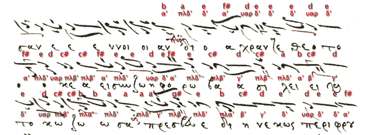 Petros Peloponnesios' realisation of the Doxastikon oktaechon Θεαρχίῳ νεύματι (SAV 714)